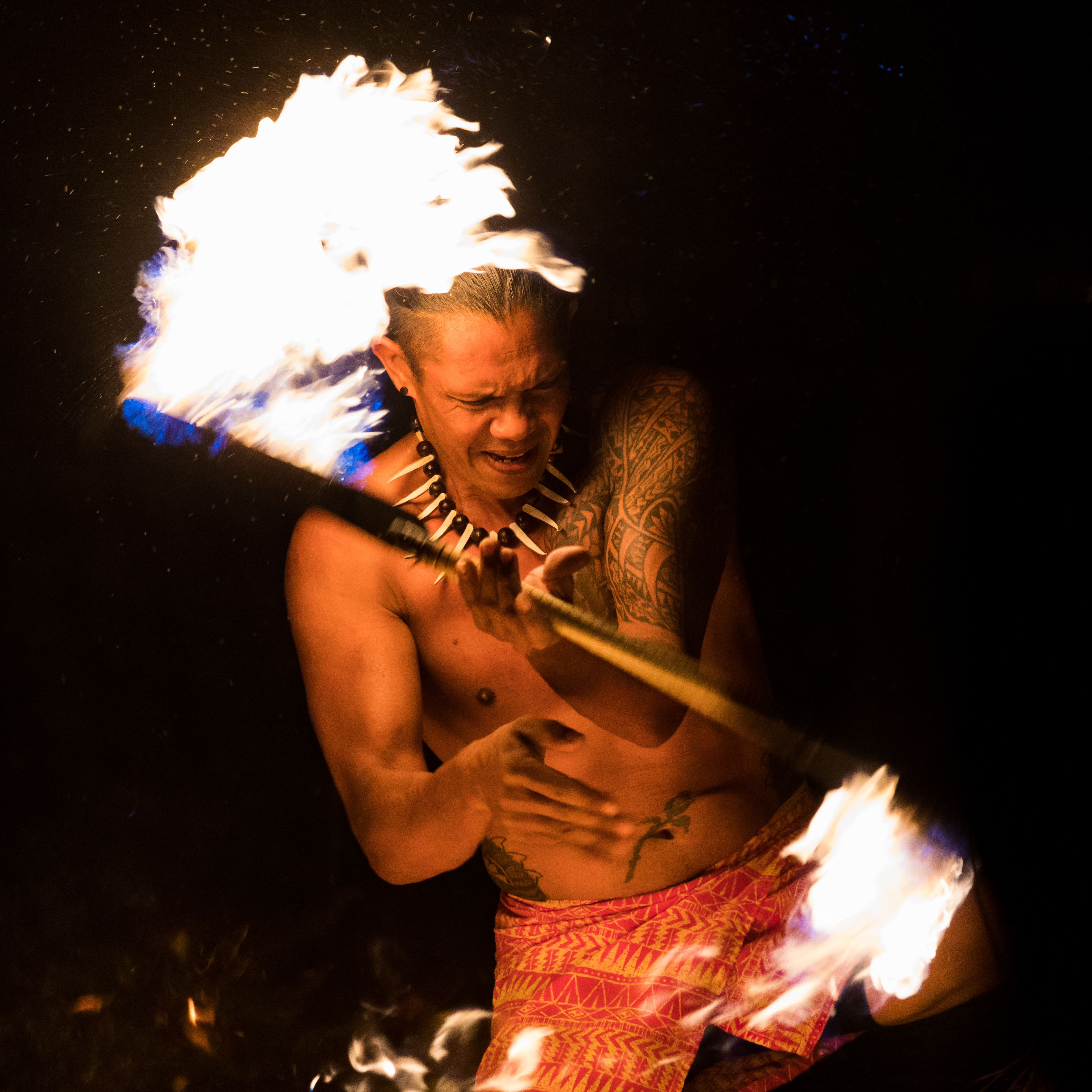 Lūʻau Fire Dancer at Kilohana Plantation, Kauaʻi